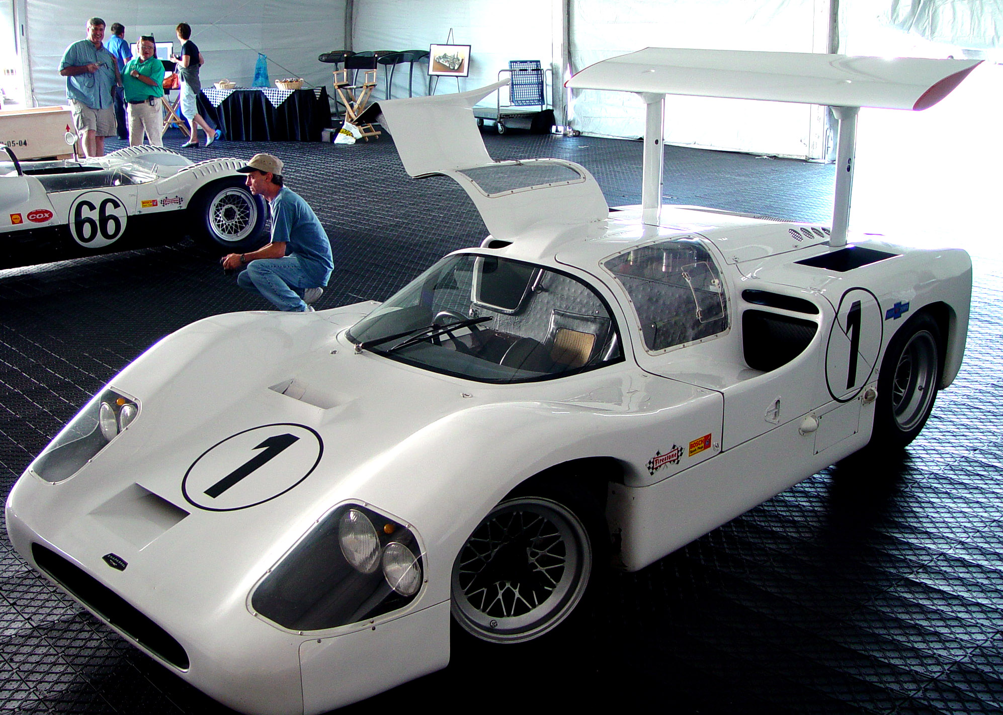 Chaparral 2F at the 2005 Monterey Historic